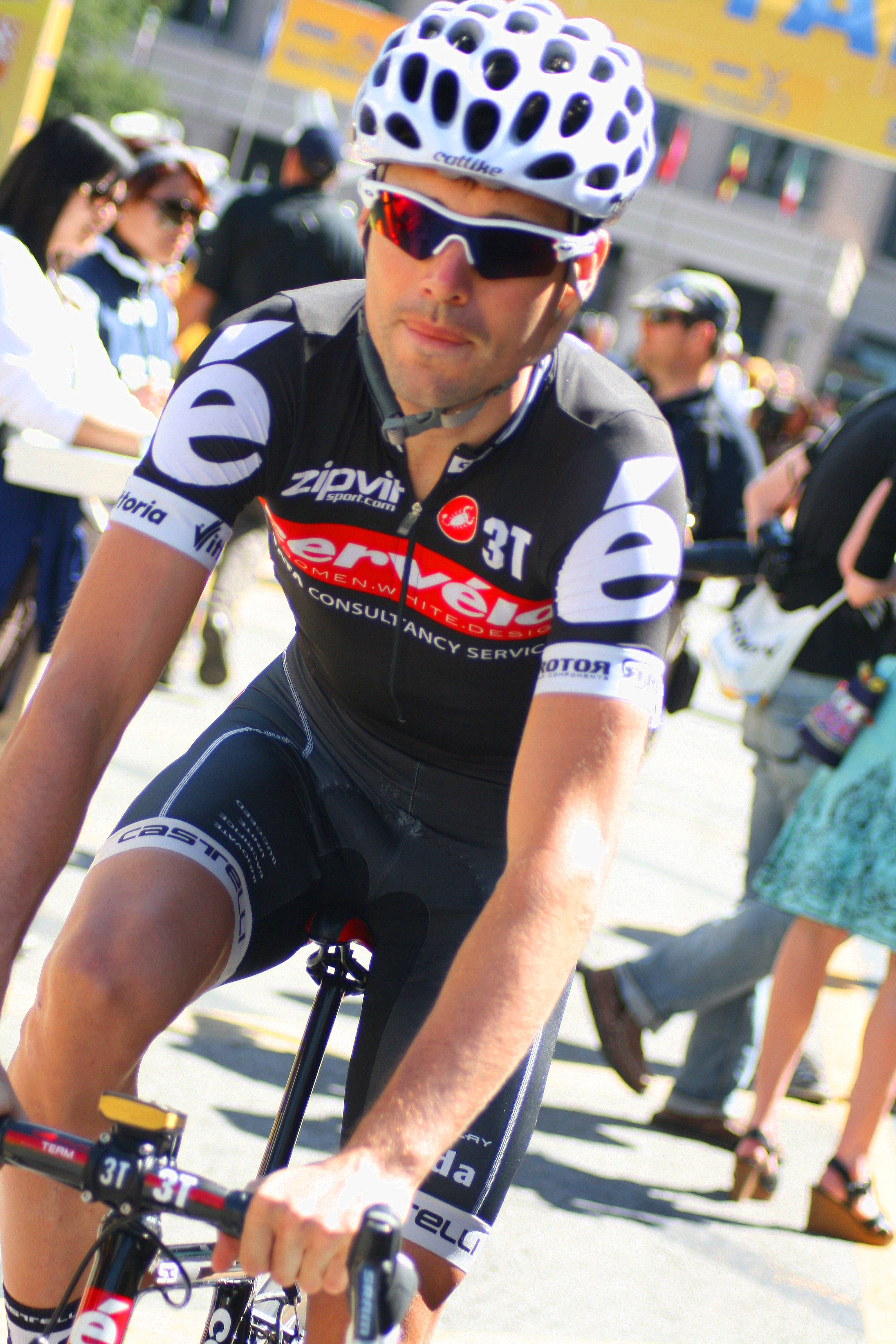 Philip Deignan of Ireland, Cervelo Test Team by Richard Masoner.